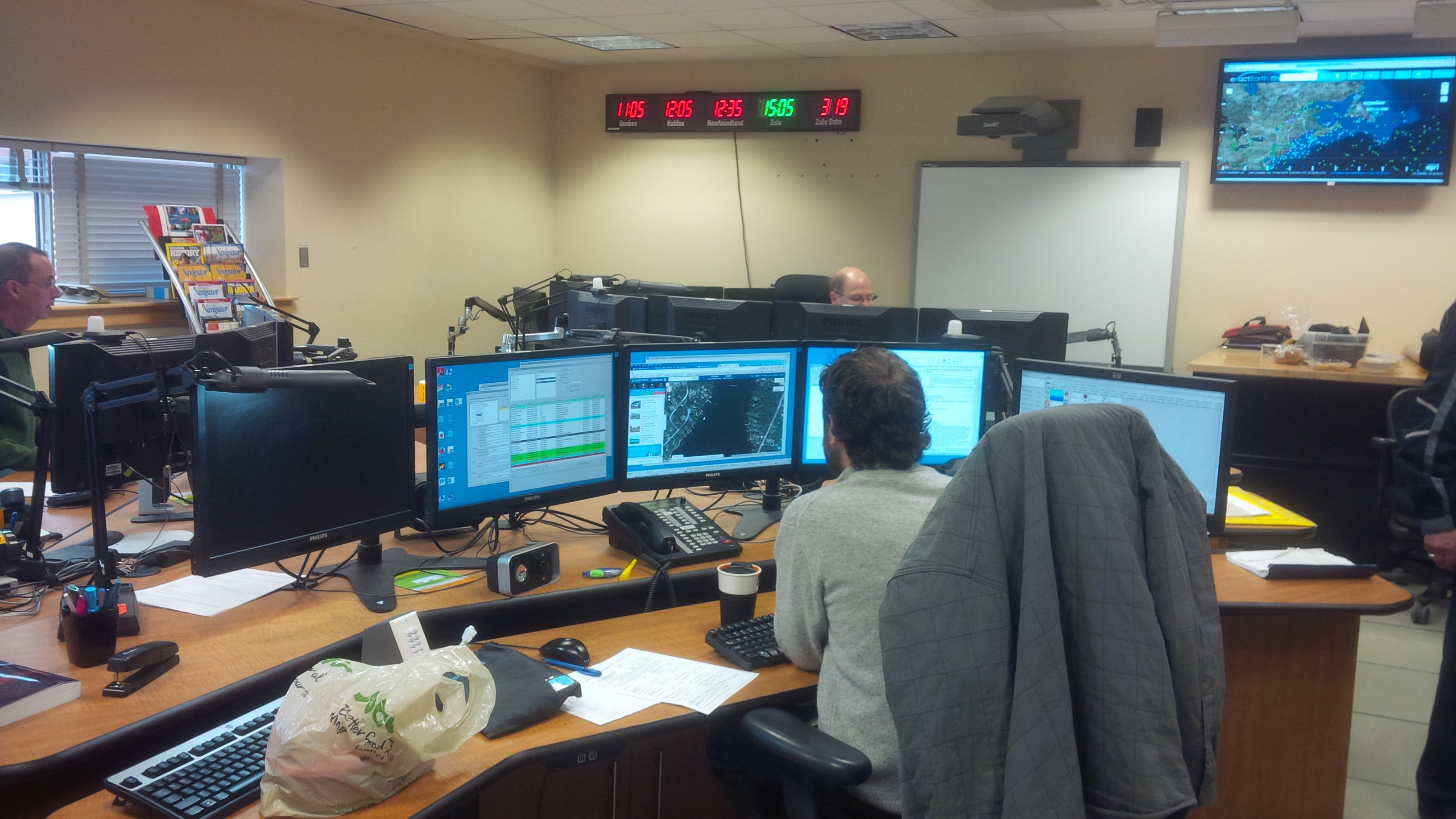 The Joint Rescue Coordination Centre Halifax (JRCC Halifax) is a rescue coordination centre operated by the Royal Canadian Air Force (RCAF) and the Canadian Coast Guard (CCG). JRCC Halifax is responsible for coordinating the Search and Rescue (SAR) response to air and marine incidents within the Halifax Search and Rescue Region (SRR). This region covers areas of the Atlantic Ocean west of 30° west longitude, north of 42° north latitude and south of 70° north latitude. It includes the land mass of eastern Canada comprising the entirety of Newfoundland and Labrador, Prince Edward Island, New Brunswick, Nova Scotia, the eastern half of Quebec, and the southern half of Baffin Island. This area measures 4.7 million km2 of which approximately 80% is water. As a secondary role, JRCC Halifax coordinates requests by other levels of government for federal SAR resources. These secondary request are commonly made for humanitarian reasons that fall within provincial or municipal jurisdiction (e.g., searching for missing hunters, hoisting injured hikers and medical evacuation when civilian agencies are unable due to weather or location).